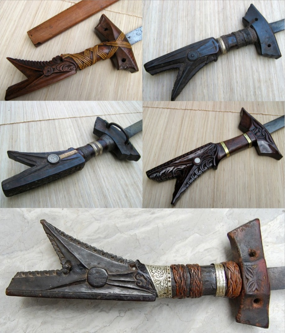 The Philippine Muslims' (Moros) ethnic long sword is also called the kampilan. Its unique bifurcated hilt is believed to represent the gaping mouth of either the mythical naga (serpent) or perhaps the crocodile. The round design on the middle of the hilt supposedly represents the "eye" of the figural creature. Other uploaded materials by the same author are here: (a) Luzon weapons; (b) Visayan weapons; (c) Moro weapons; and (d) Lumad (non-Moro Mindanao) weapons